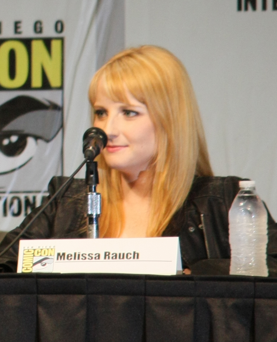 Melissa Rauch (Bernadette)